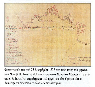 Skets of fortification in Mesolonghi, Greece